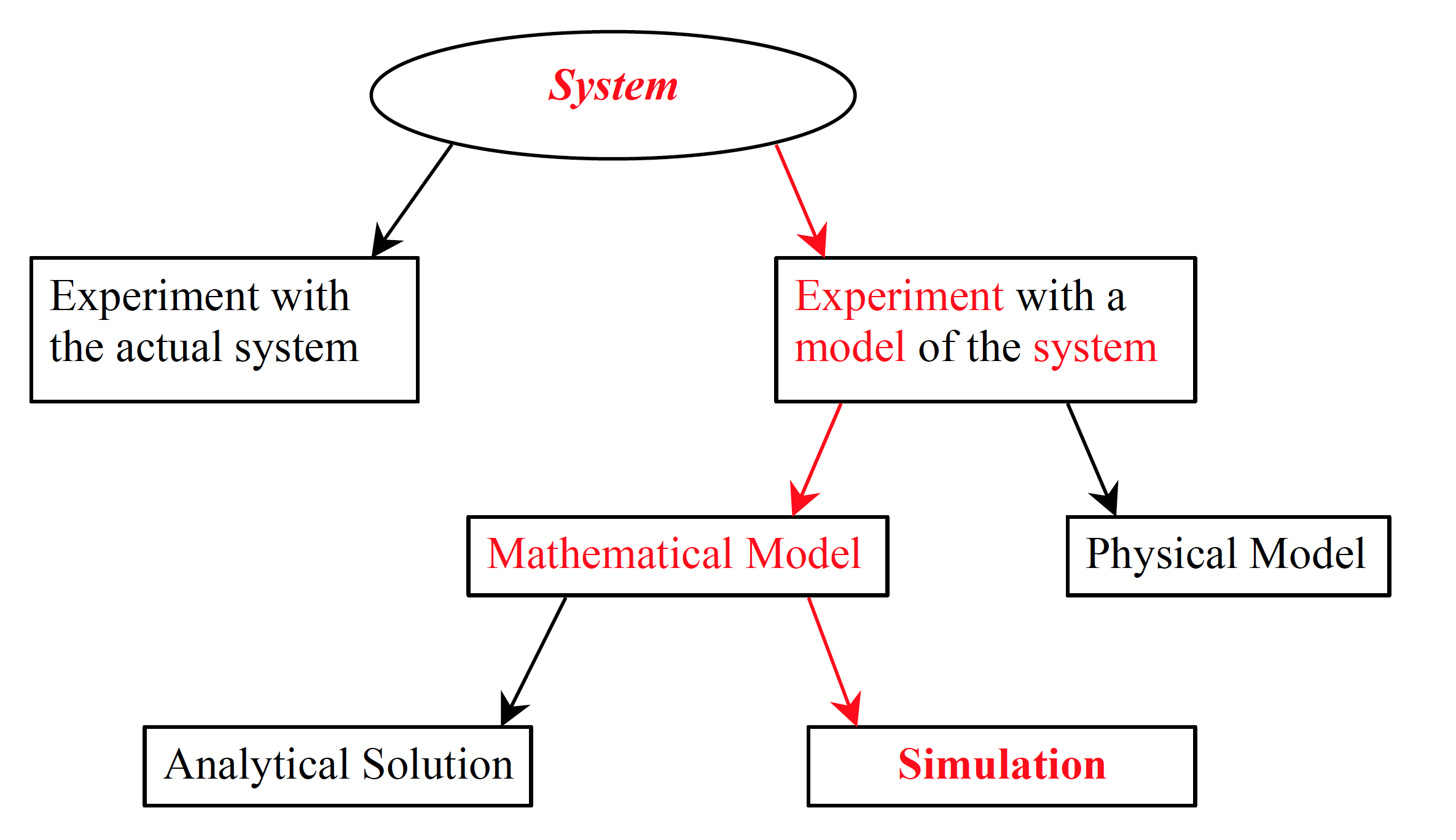 Computational modeling can be seen as a third mode in empirical science